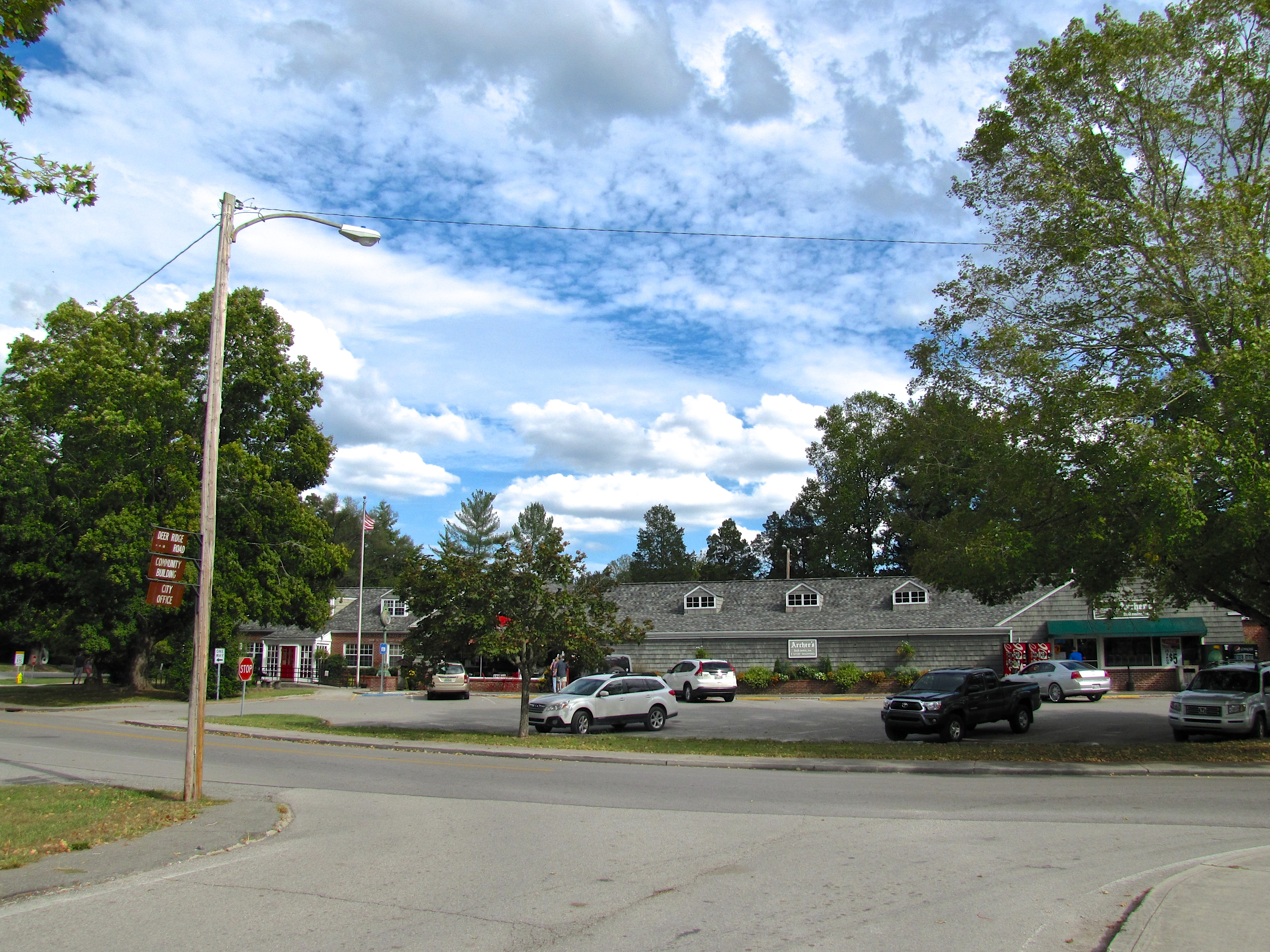 Post office (left, background) and Archer's in Norris, Tennessee, United States.